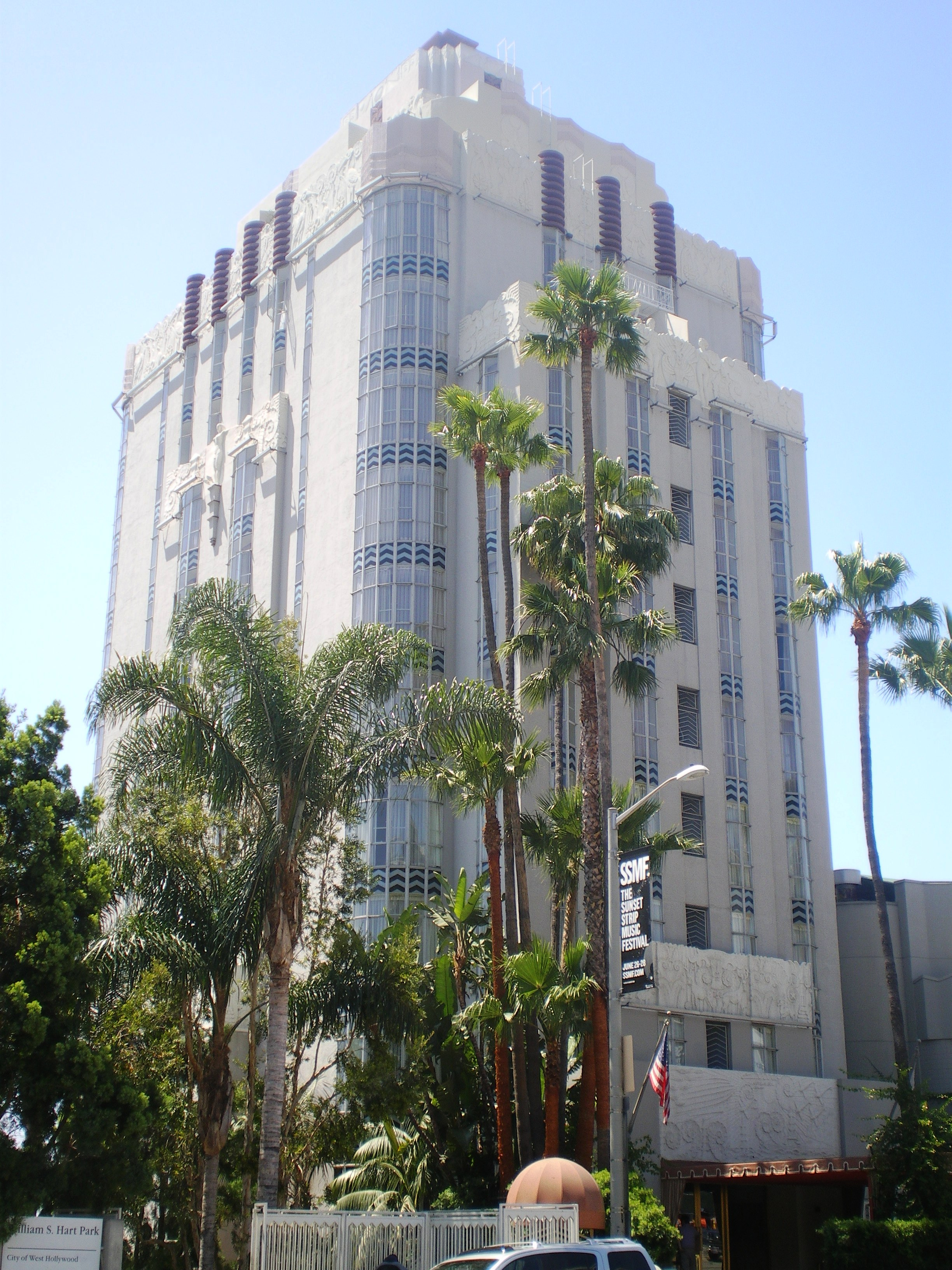 Sunset Tower Hotel, 8358 Sunset Blvd., West Hollywood, California